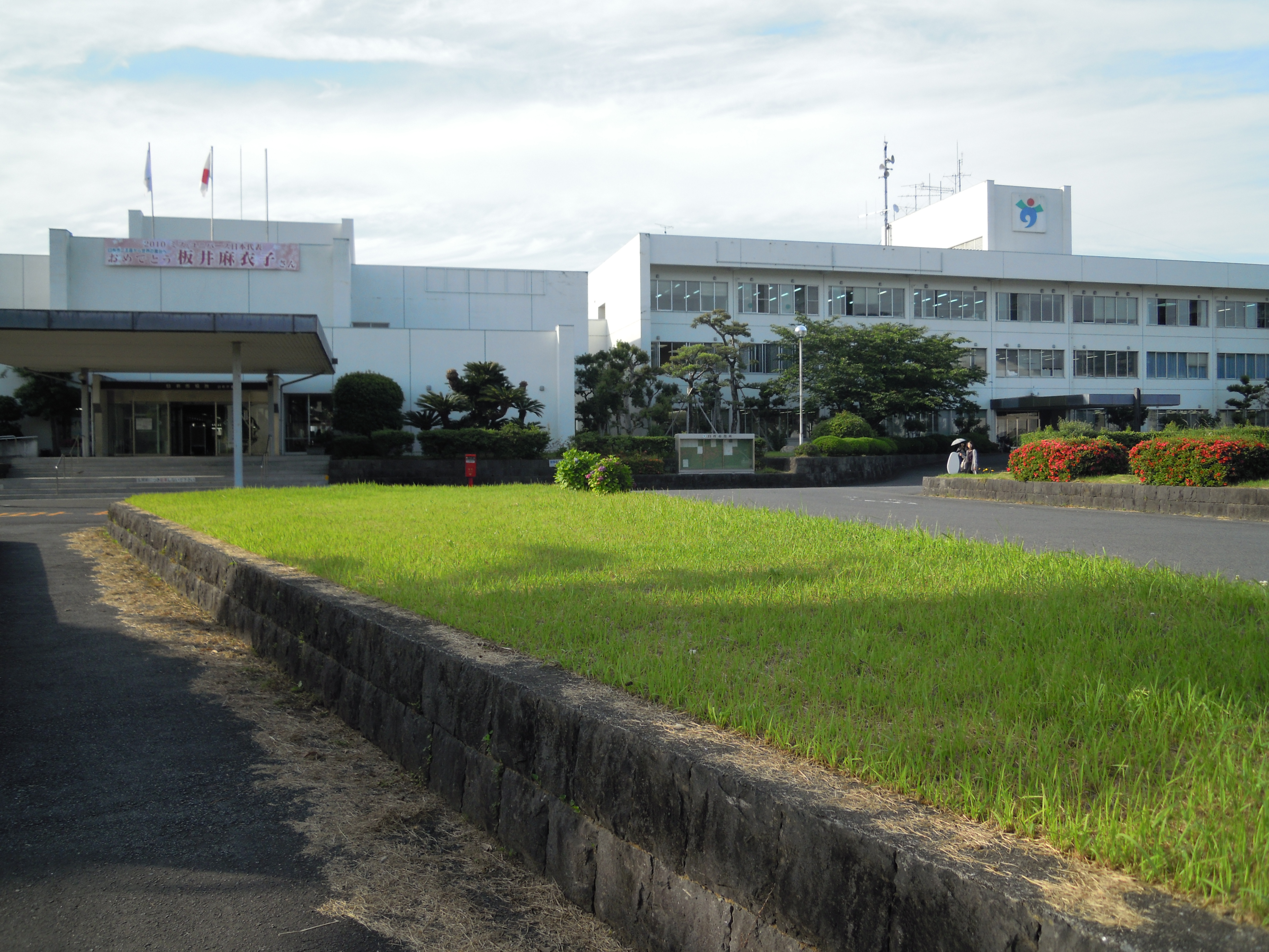 Usuki city hall (Usuki building).